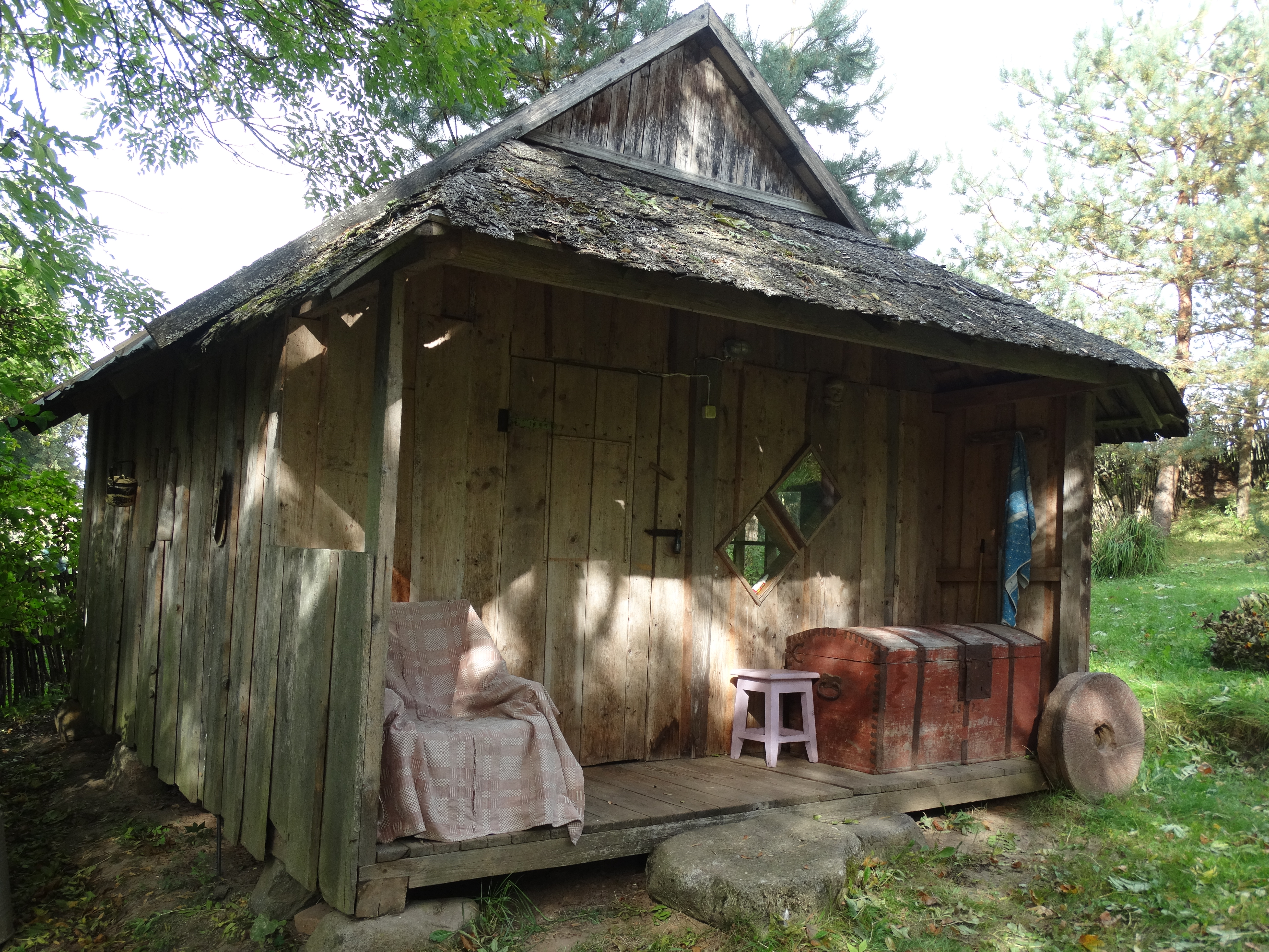 Davatkynas, Naujasodis, Prienai district, Lithuania